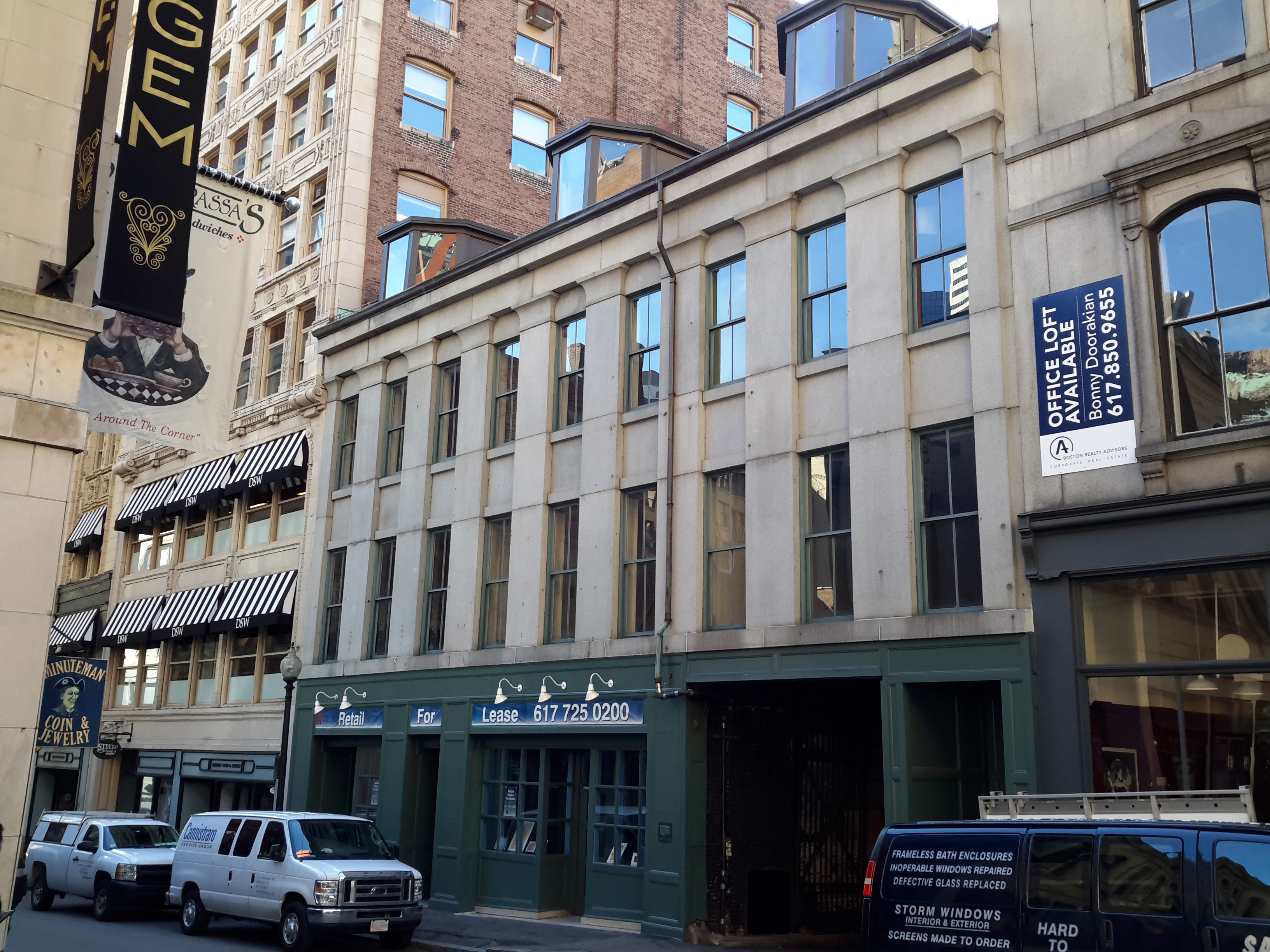 20-30 Bromfield Street from Province Street, in Boston, Massachusetts.